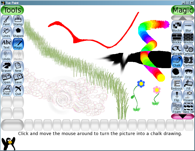 A drawing made using only some of Tux Paint's Magic Tools: Rainbow, Calligraphy, Flower, Bubbles, Ripple, Negative, Smudge and Chalk.